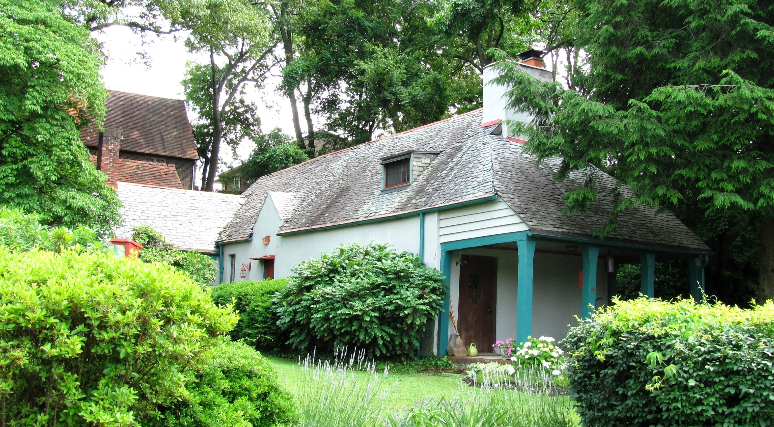 House at 518 Glenwood Avenue in Knoxville, Tennessee, USA. Built in 1925, this house was designed in the French Eclectic style by Knoxville architect Charles Barber, and today is listed as a contributing property in the NRHP-listed Old North Knoxville Historic District.